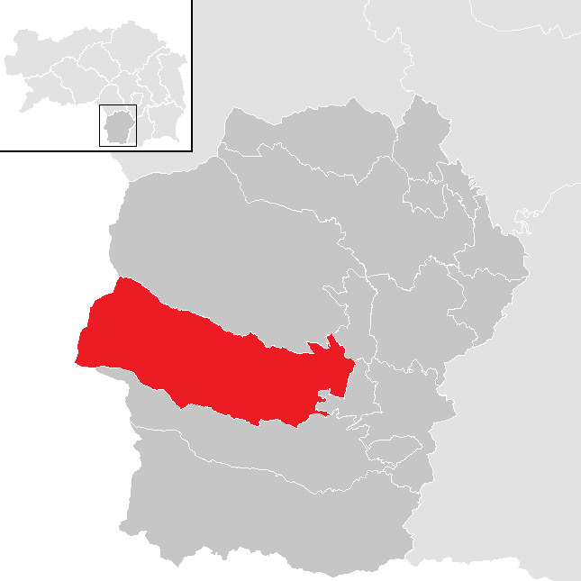 District Deutschlandsberg, Styria, Austria